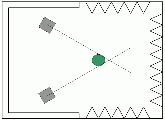 an example of a control room for recording and mixing similar to classical LEDE concept